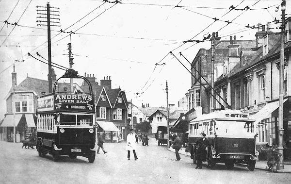 A pair of pioneering trolleybuses in Hastings, East Sussex, England. Both were constructed on Guy BTX chassis. At left is no 1, DY4953, one of eight Dodson bodied open top open staircase double deckers. These eight vehicles were the only new build open top trolleybuses ever to be built. At right is no 22, DY5124, which, like the rest of the Hastings fleet, was a centre entrance saloon with Ransome Sims and Jeffries bodywork.